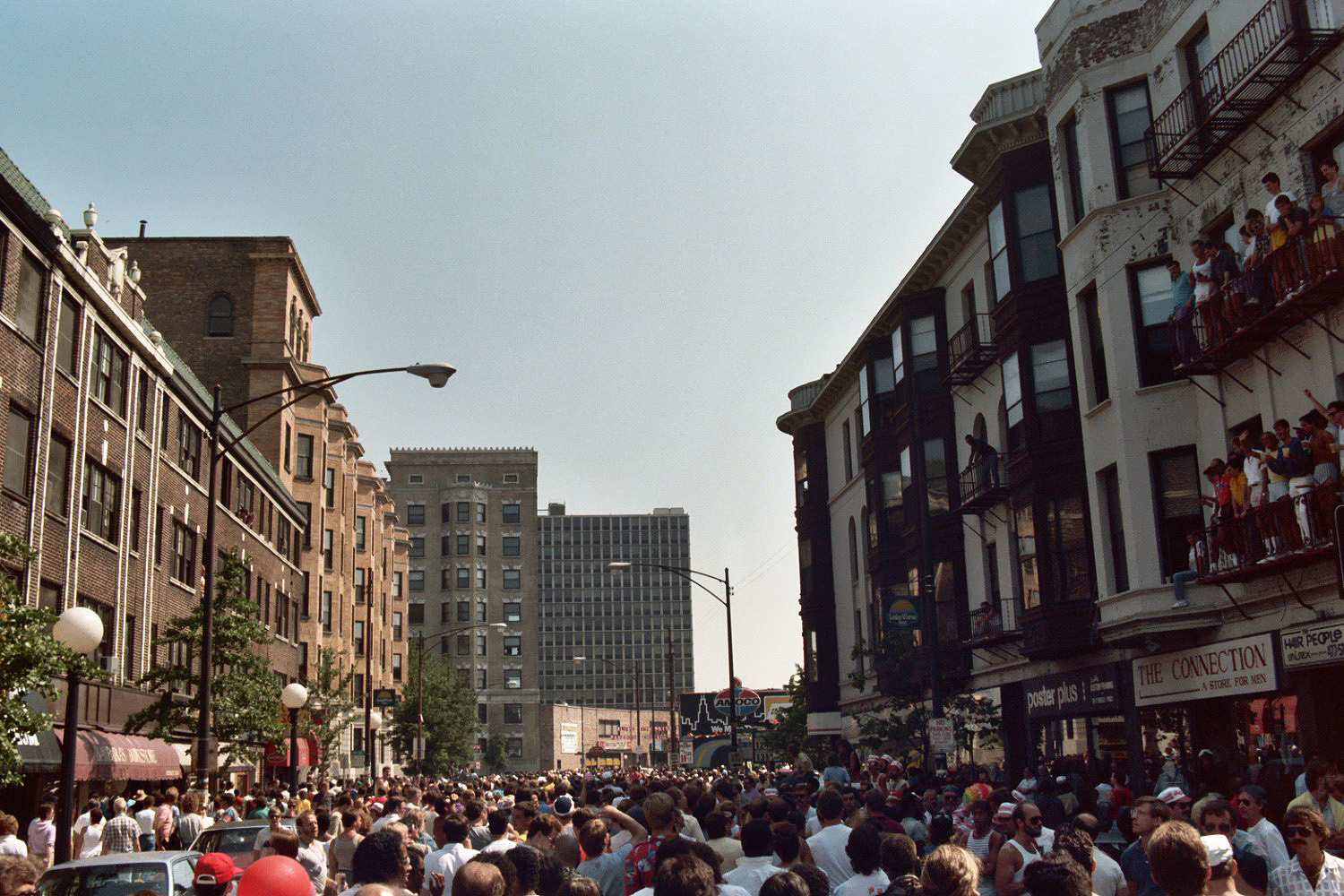 Chicago's 16th Annual Gay & Lesbian Pride Parade, June 1985